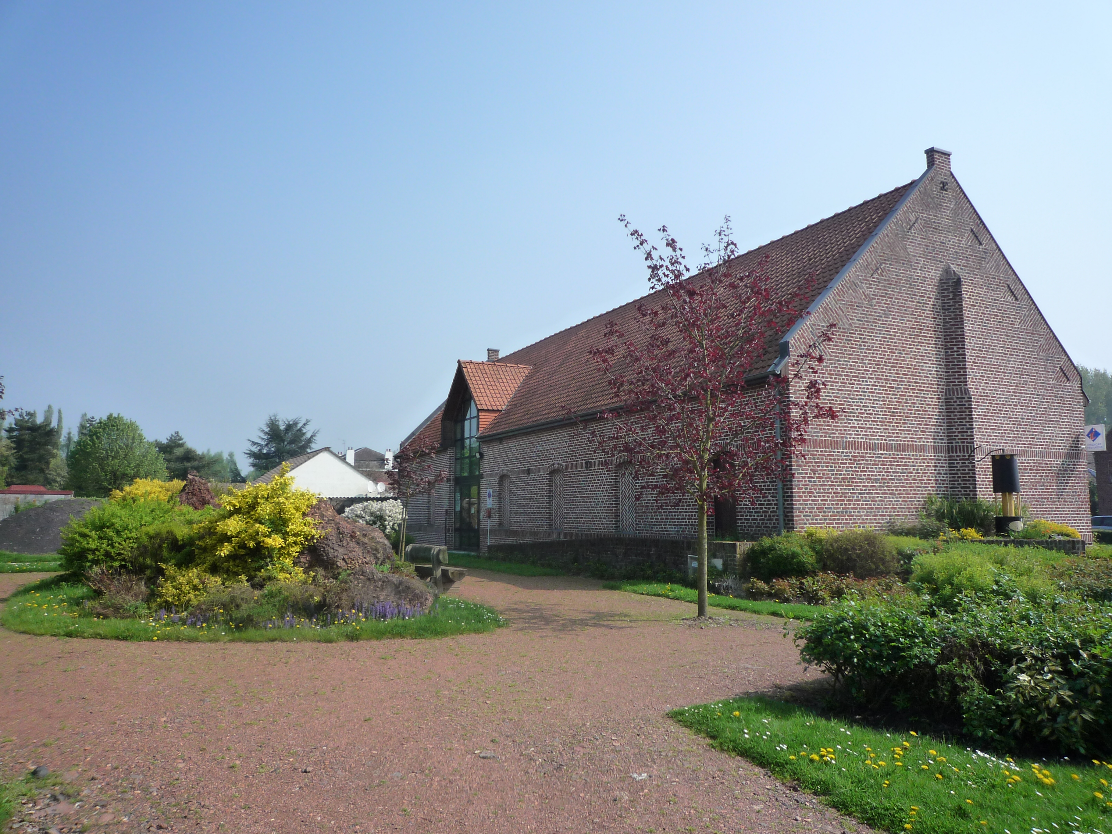 Rieulay, France.